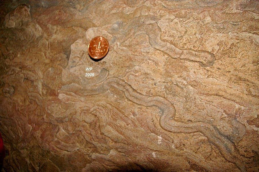 Isopodichnus trace fossils (arthropod trackways) from the upper Lower Carboniferous of St Monans (Fife Peninsula, Scotland). 2 pence coin for scale.